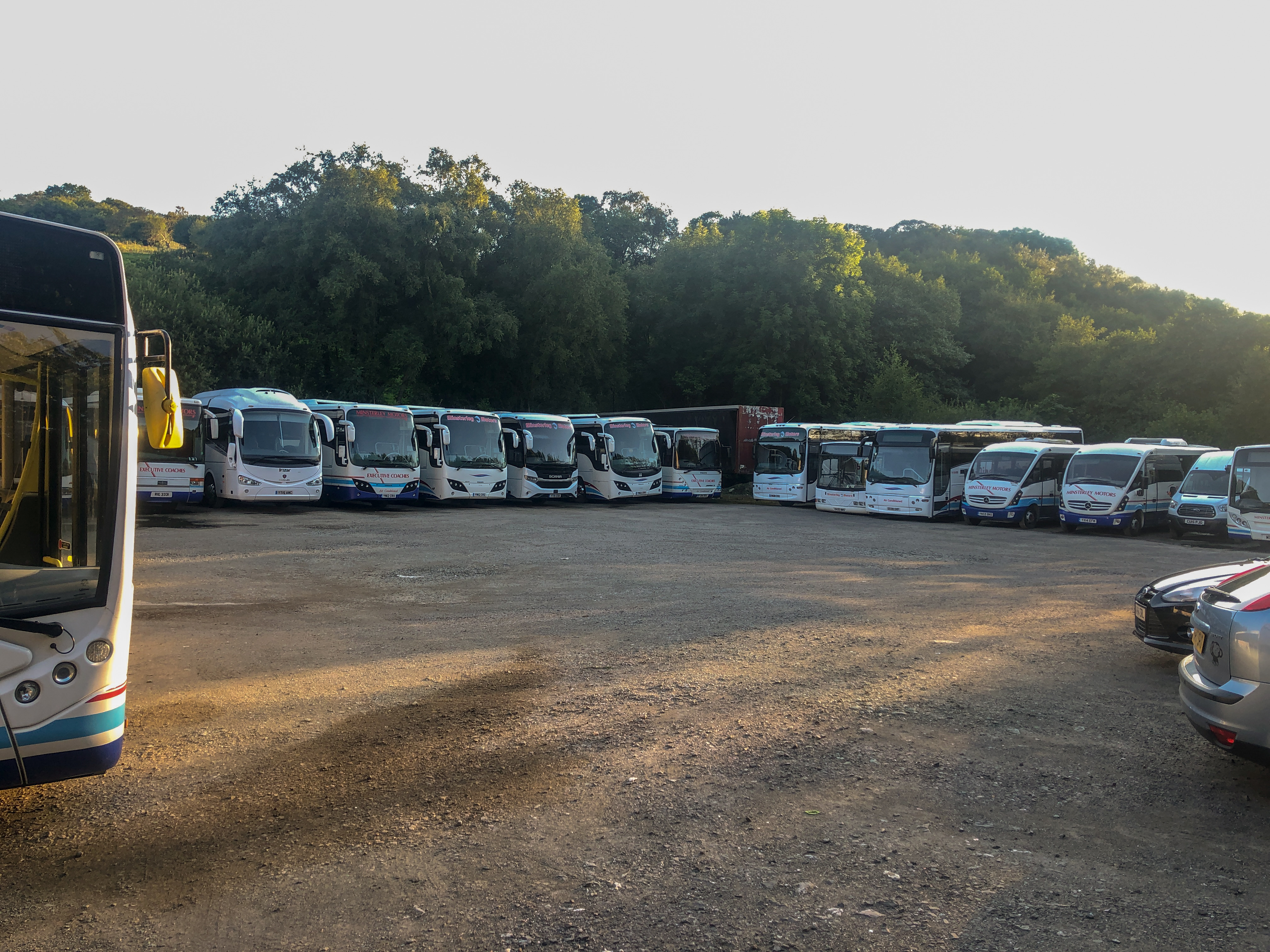 A view of the full yard at Stiperstones. Visible are many of Minsterley’s vehicles.